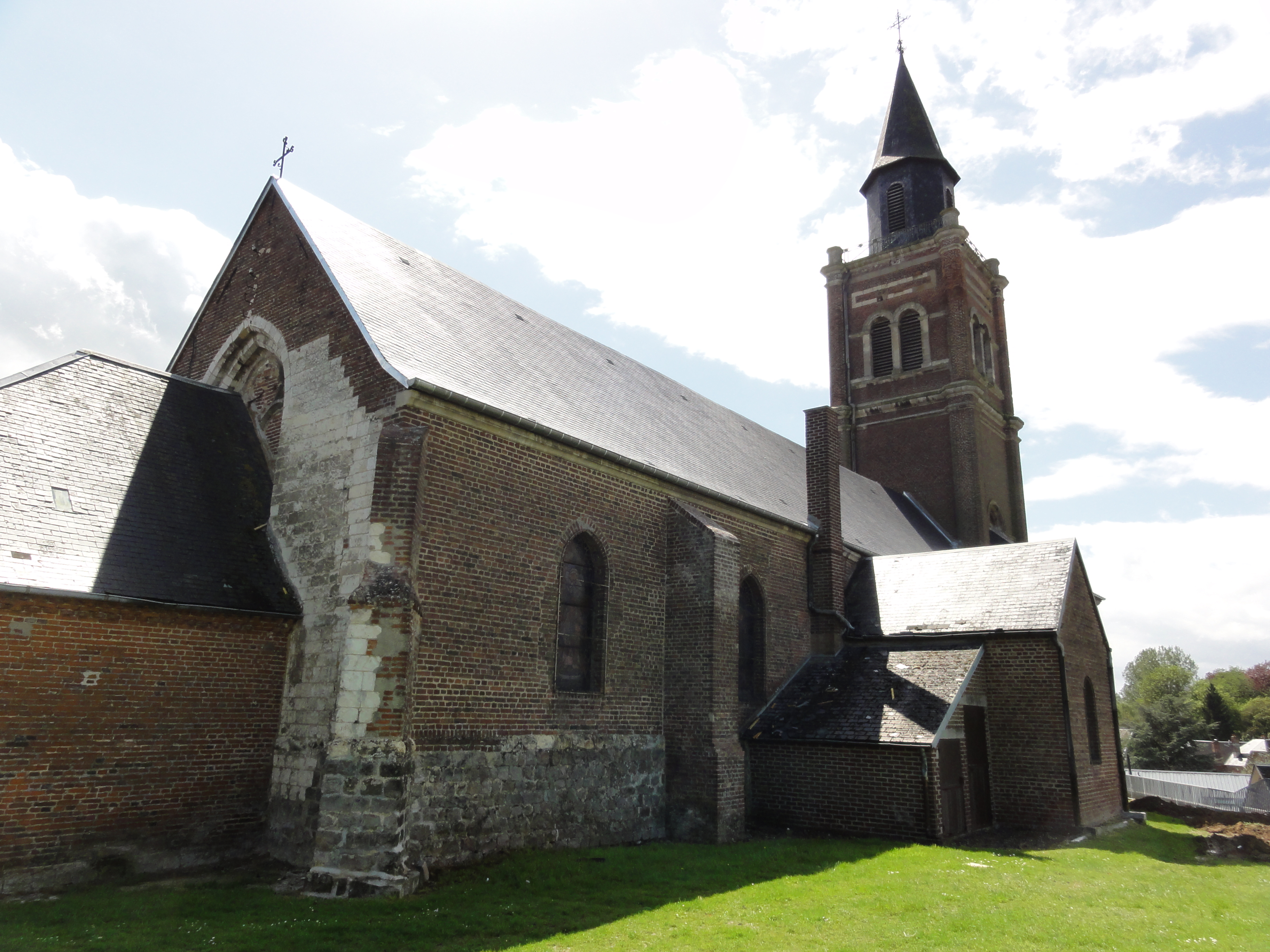 Séry-lès-Mézières (Aisne) église Saint-Martin extérieur